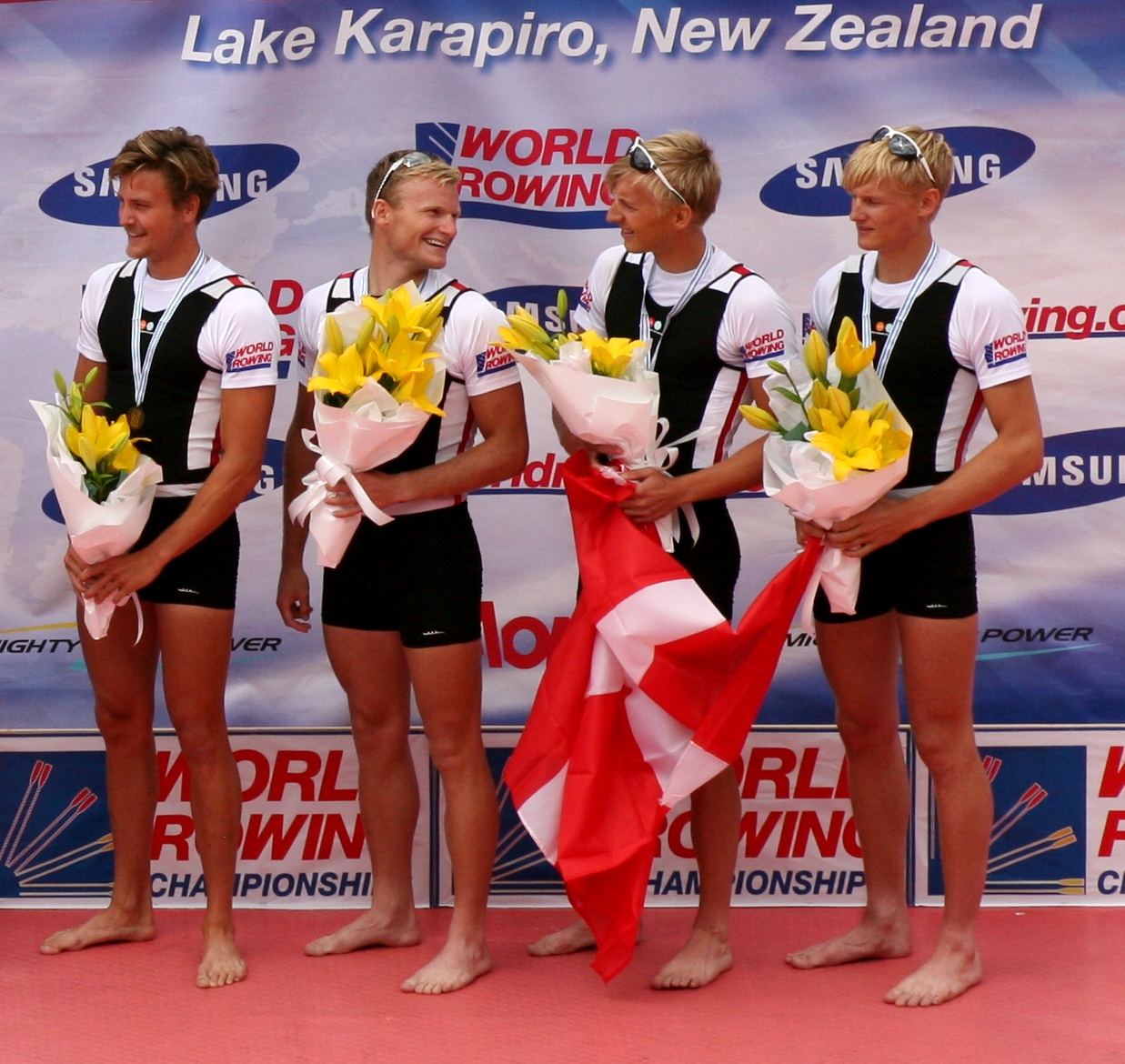 Steffen Jensen, Martin Batenburg, Christian Nielsen, Hans Christian Soerensen